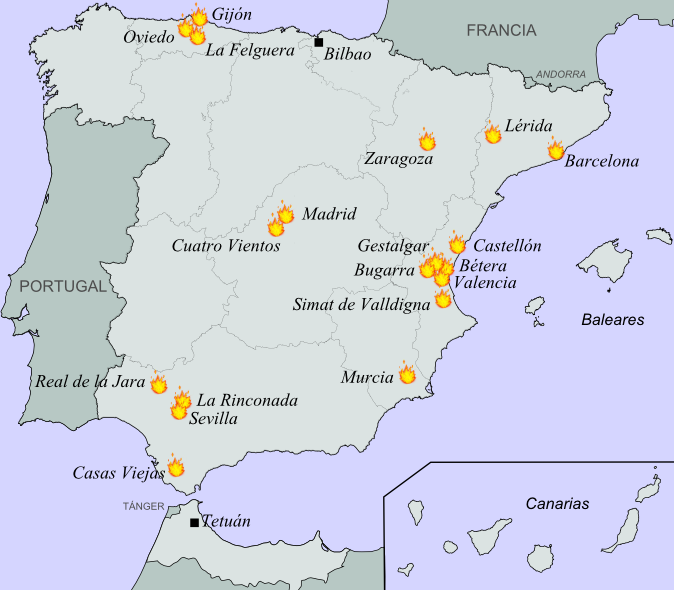 Main scenarios of the strike and revolution of January 1933